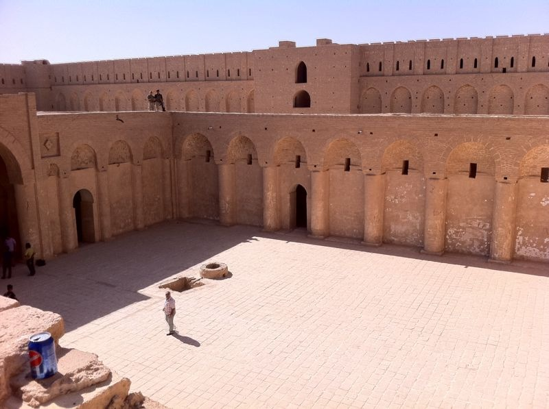 Abbasid palace of Ukhaider near Karbala, Iraq